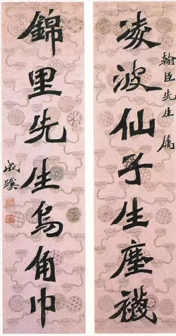 Calligraphy work by Li Shutong (1880-1942)